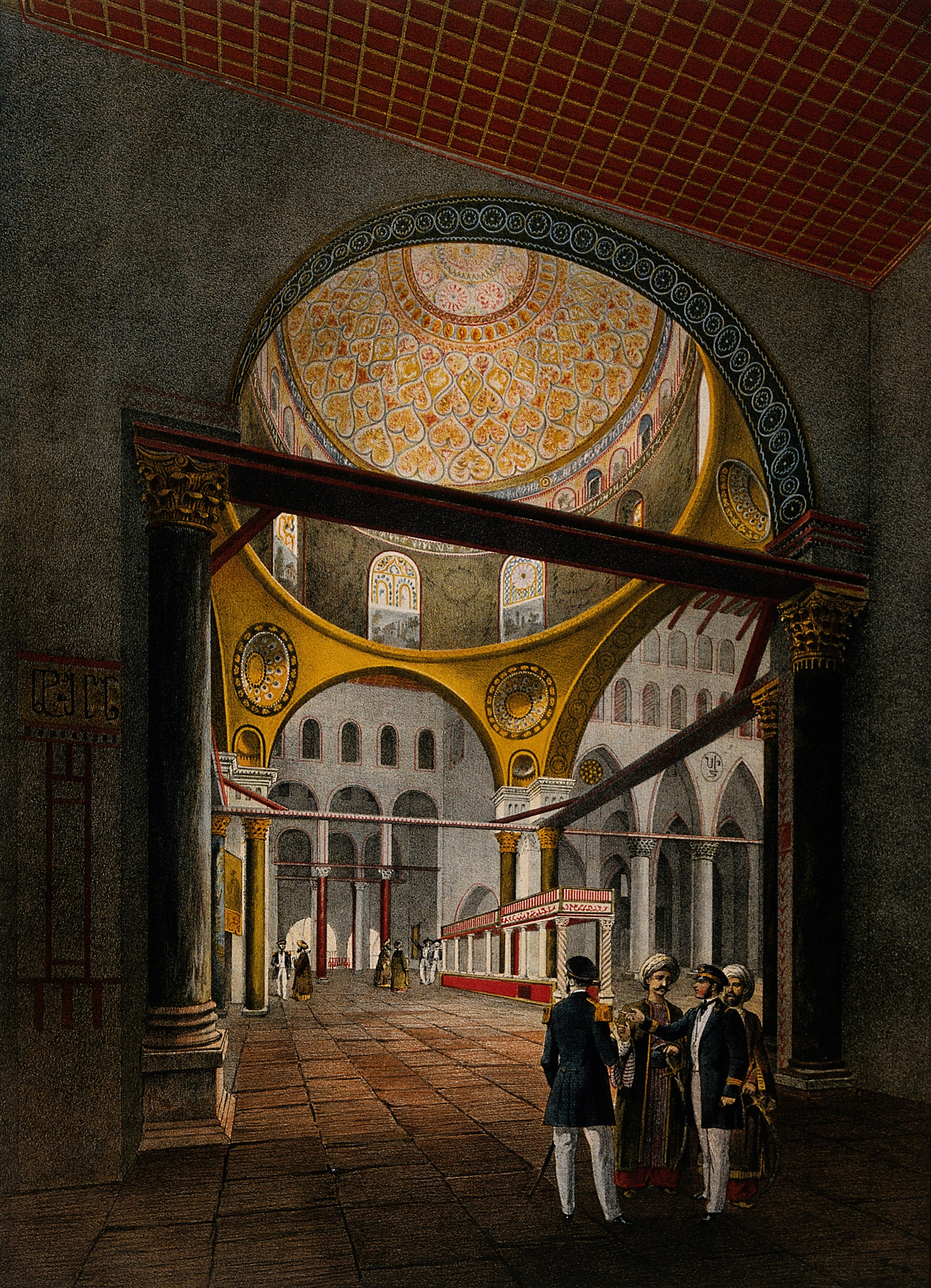 Interior of the Al-Aksa mosque, Jerusalem. Chromolithograph by Bachelier and A. Adam after Francois Edmond Pâris, 1862. Iconographic Collections Keywords: Albert Adam; Francois Edmond Pâris; Bachelier